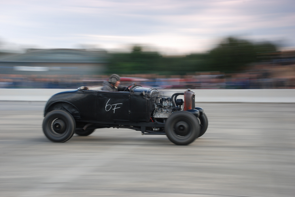 Hot Rod Race at Finsterwalde/Schacksdorf Airfield